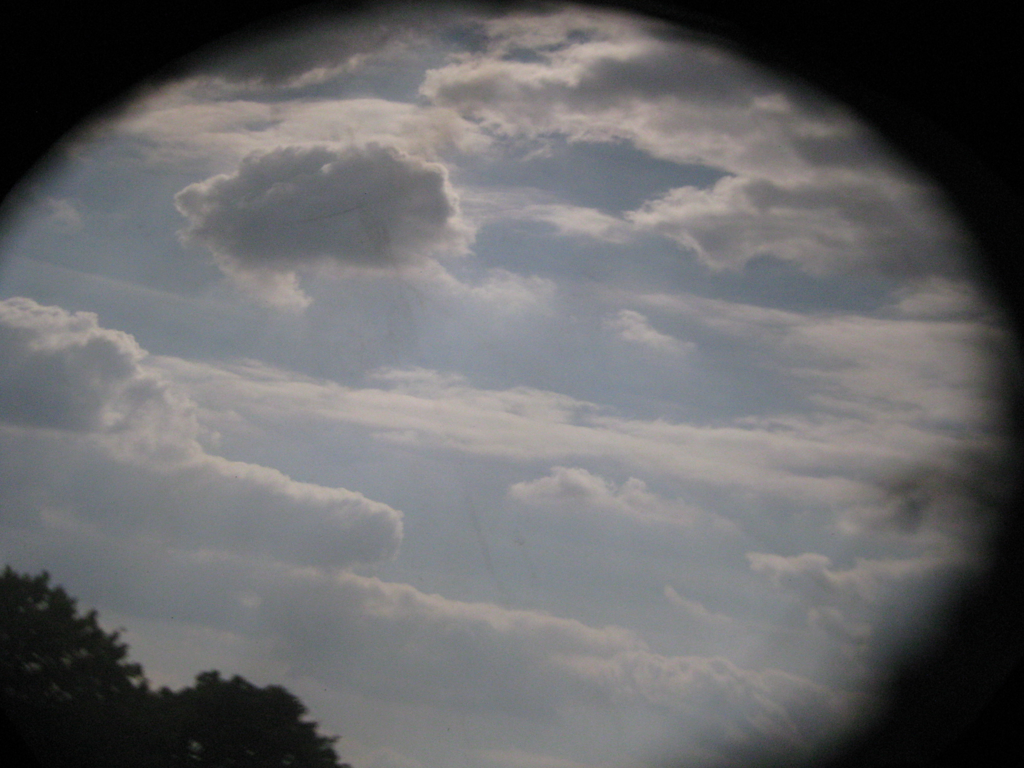 an image of clouds on a camera obscura